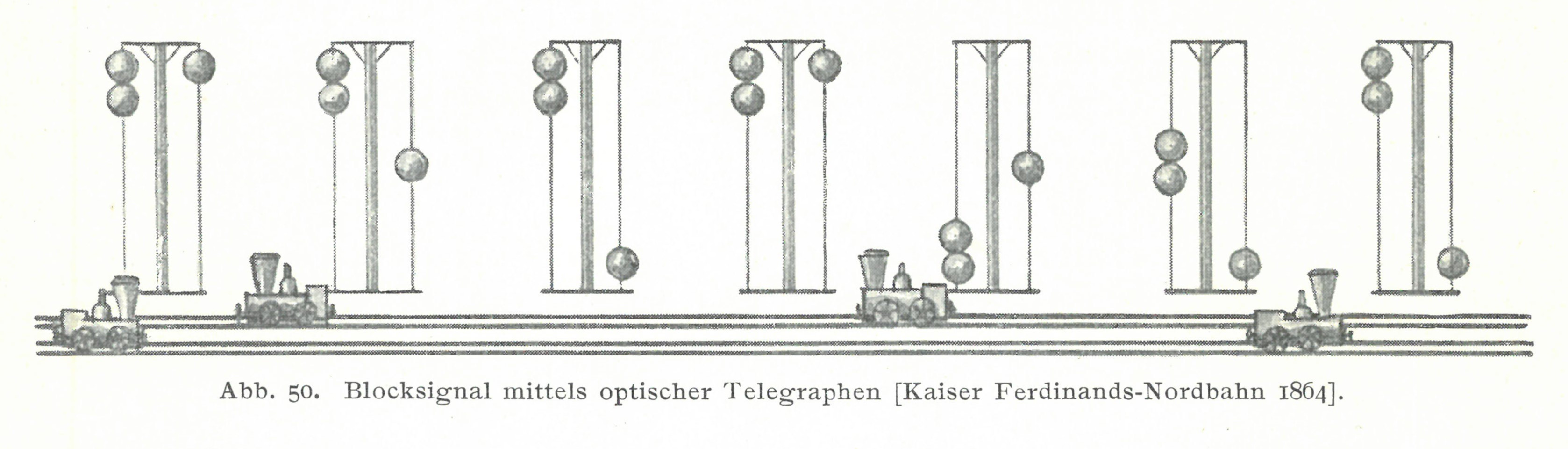 Graphic showing the use of the basket signals on the route between Prerau and Ostrau of the Kaiser-Ferdinands-Nordbahn as block signals.